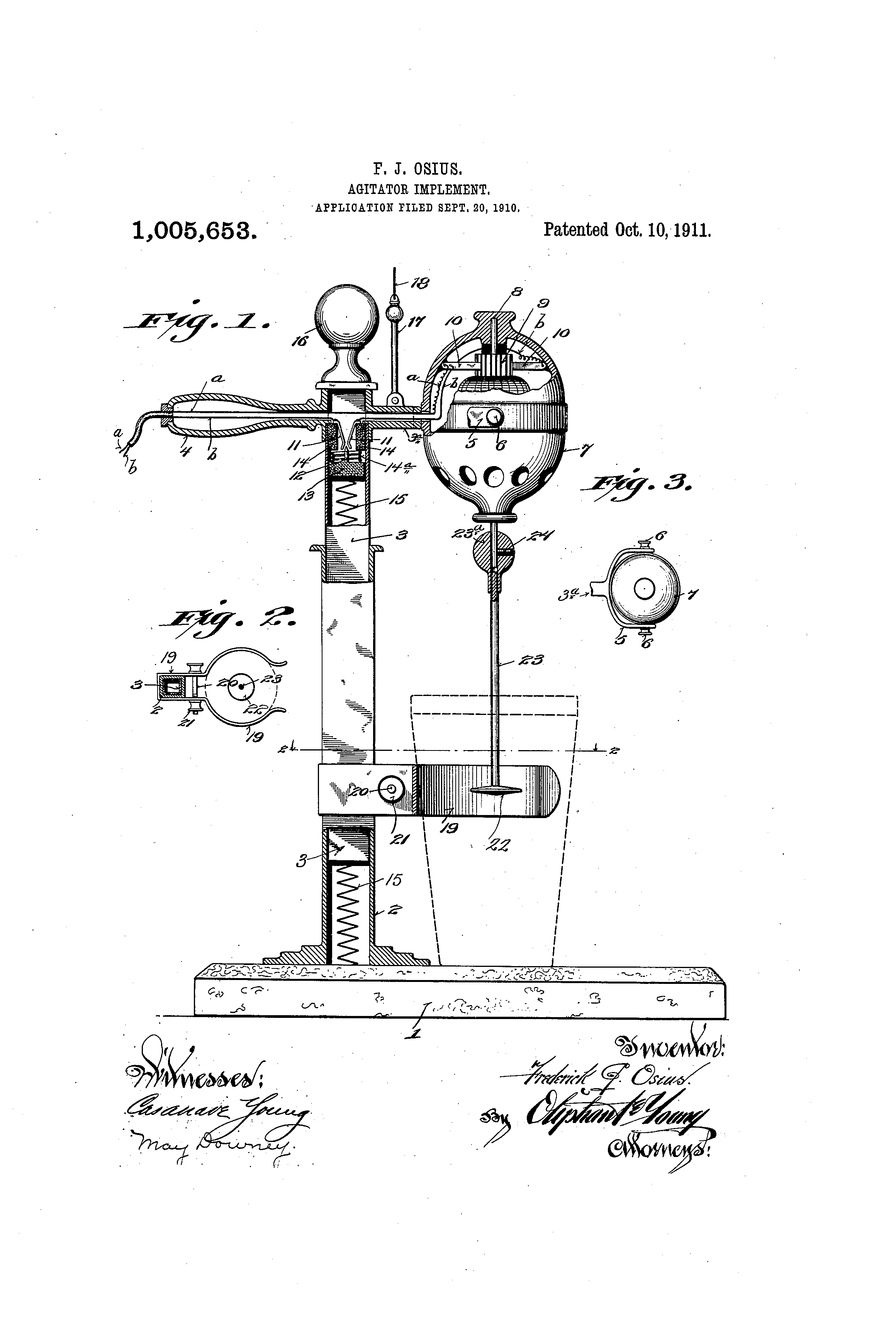 Patent drawing for the original milkshake machine or drink blender, US1005653.